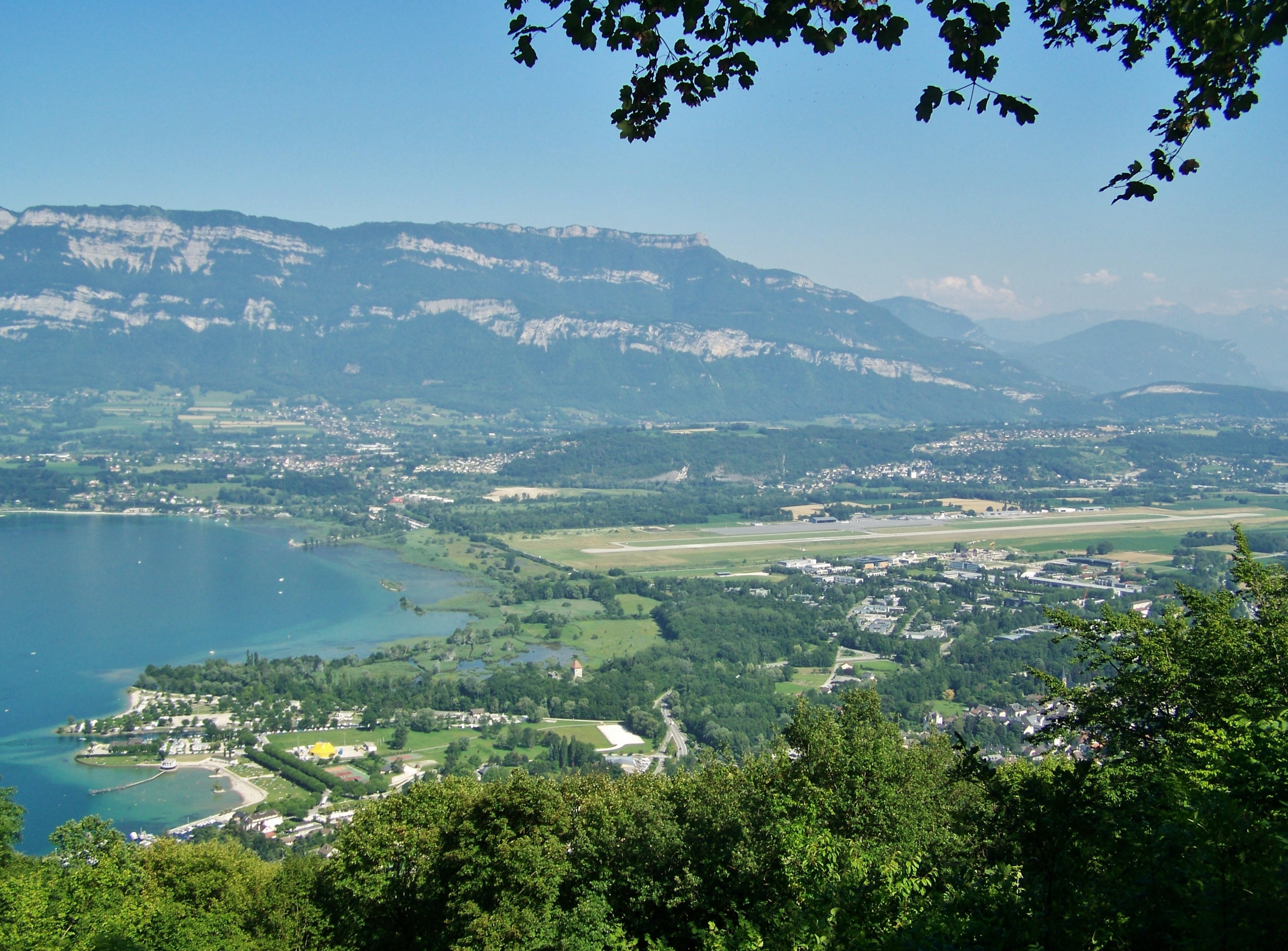 Sight on Chambéry-Savoie airport, close to the lake of Bourget near Chambéry, Savoie, France.